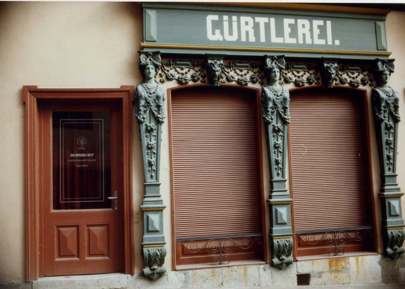 Schorcht Leuchtenfertugung, Weimar. In 2006, this had become KONTOR , as photographed by @Zimtrolle